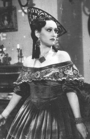 Herminia Franco-actriz argentina